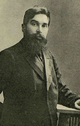 V. I. Dziubinsky